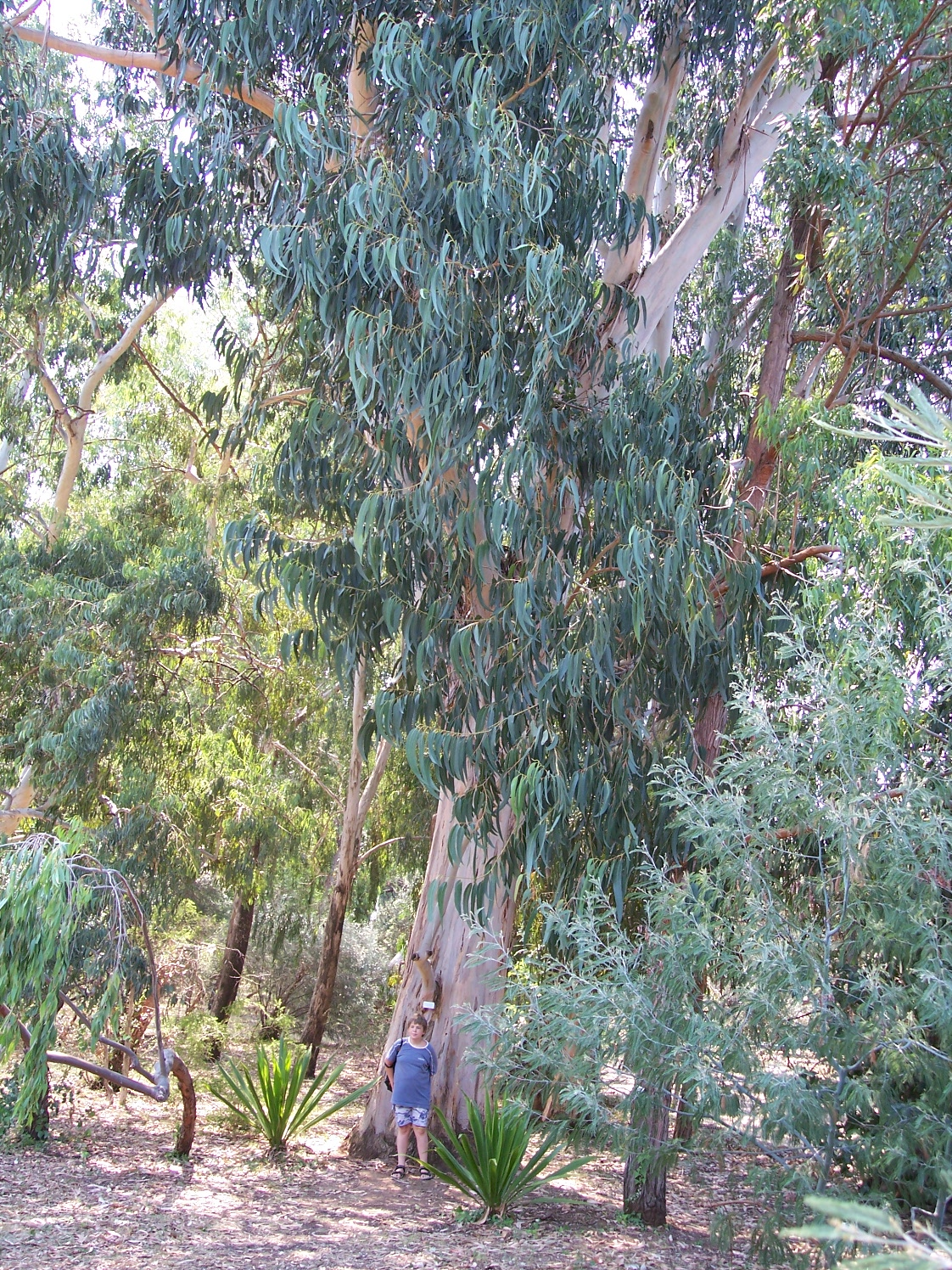 Tasmanian Blue Gum (Eucalyptus globulus or Eucalyptus bicostata [?]) Location Botanical Garden on Lokrum isle (Croatia)